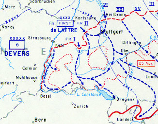 Image is an extract from the URL: Full image is the work of a US Government agency.